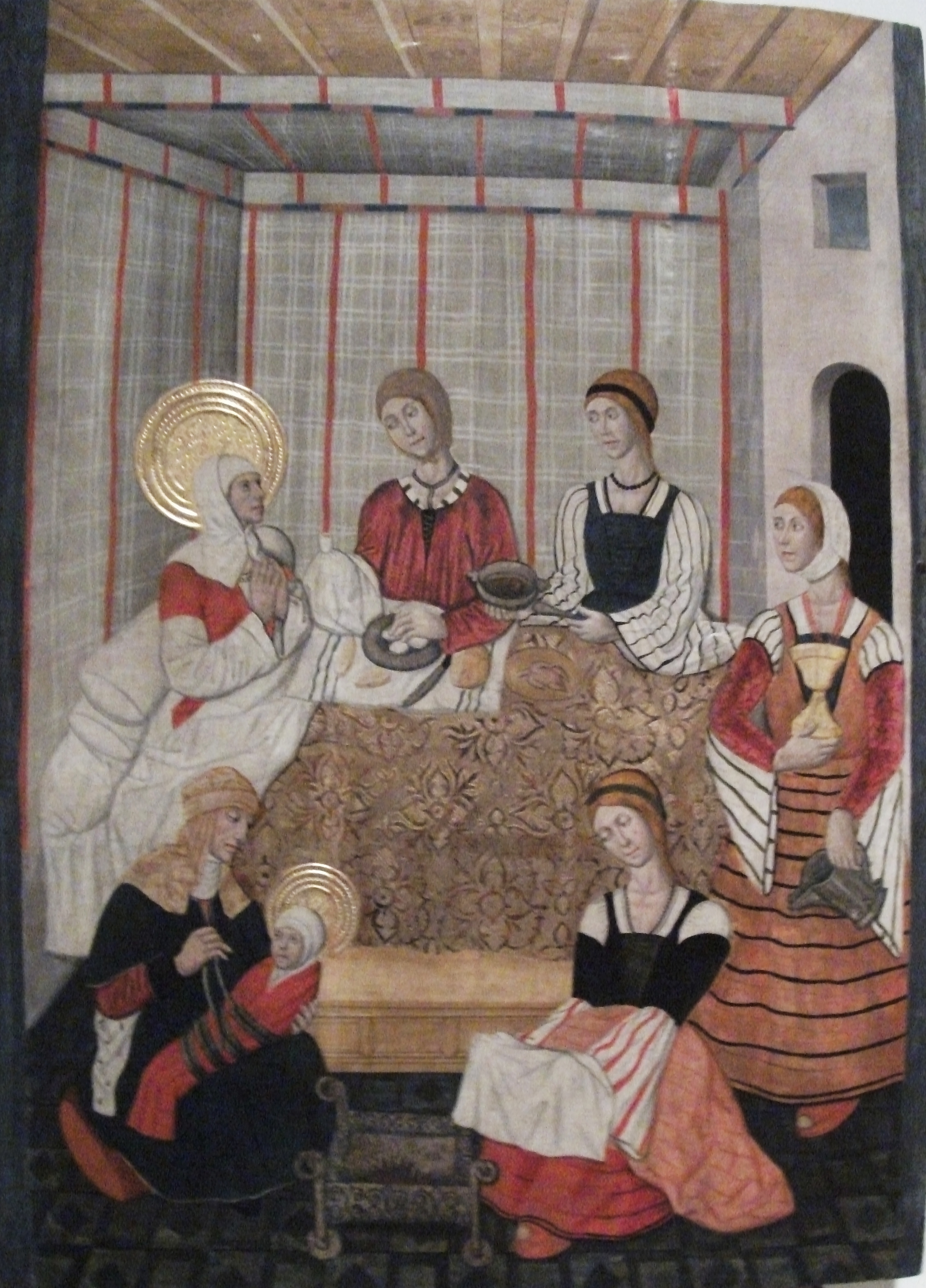 Museu Nacional d'Art de Catalunya Native nameMuseu Nacional d'Art de CatalunyaLocationBarcelona, (Catalonia, Spain)Coordinates41° 22′ 06″ N, 2° 09′ 12″ E Established1990Website control VIAF: 123033586 ISNI: 0000 0001 2284 7833 LCCN: n94001340 GND: 5089748-2 SUDOC: 030383498 WorldCat Gothic section